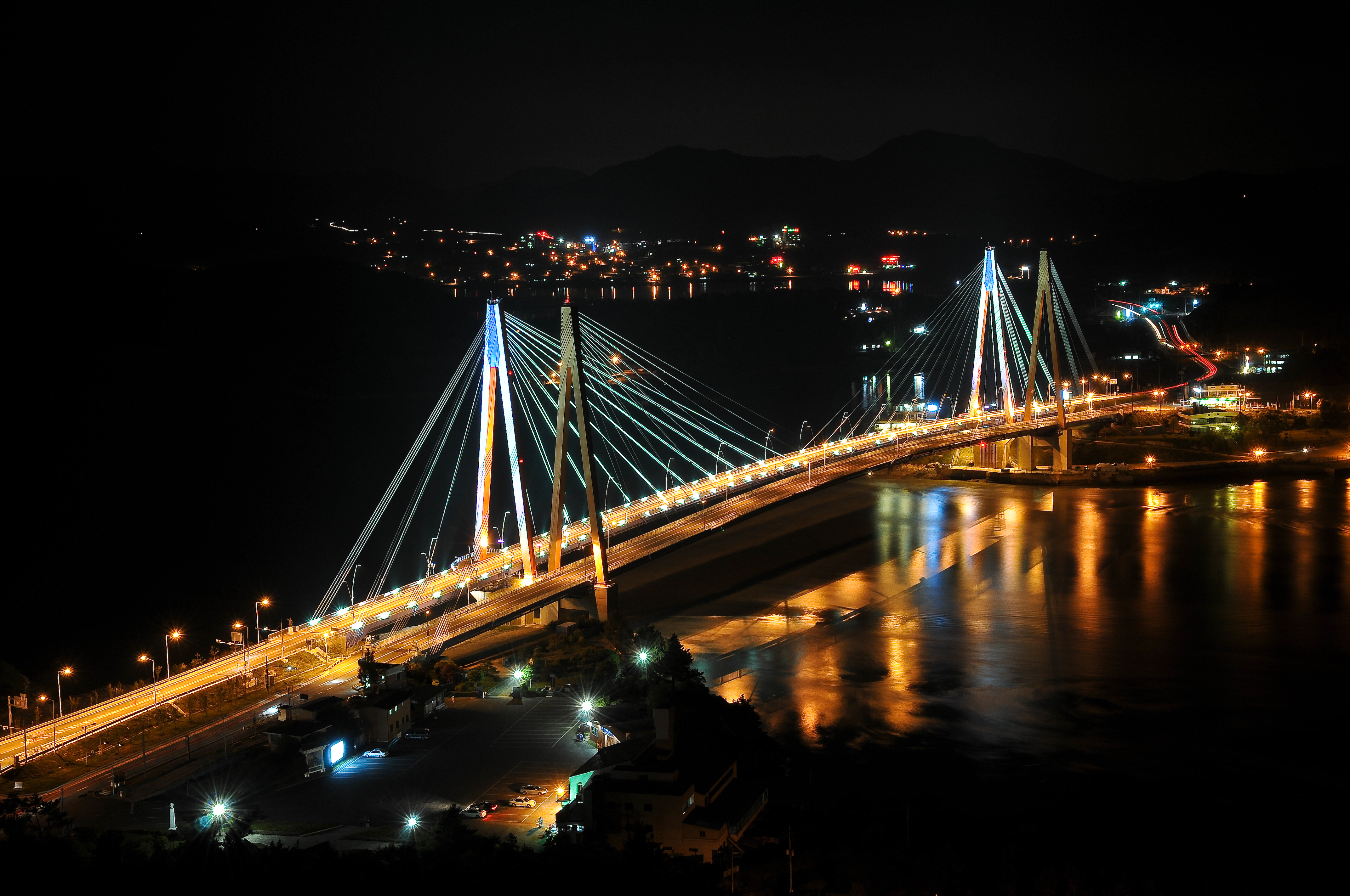 The Jindo Bridge in South Korea Original description:진도대교 야경 Night View of Jindodaegyo (Bridge)